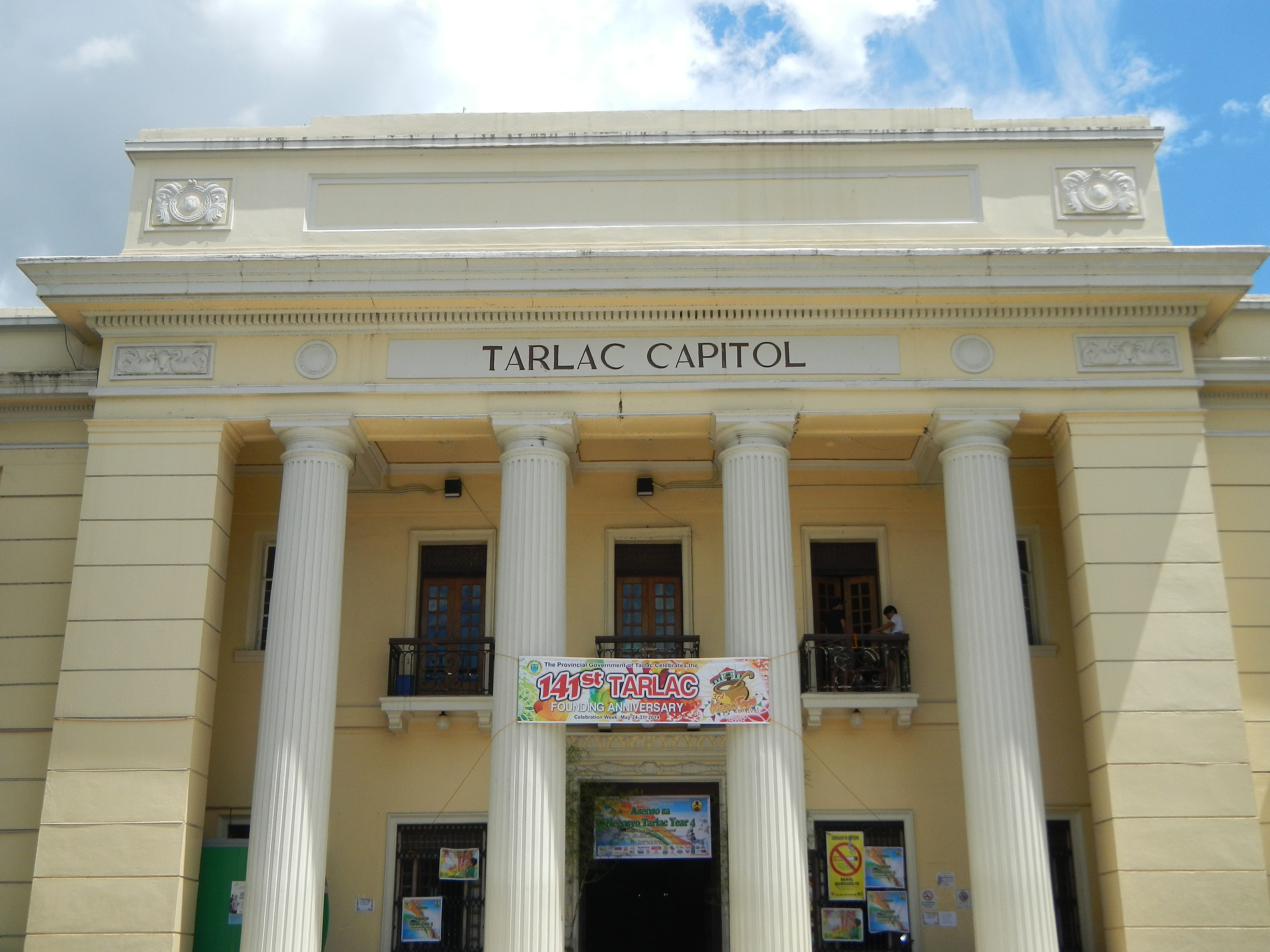 Tarlac City, Tarlac, Provincial Capitol Complex Compound, in the center is the Francisco Macabulos statue, monuent [1] Maria Cristina Park, 2300 Tarlac City, Tarlac Tarlac Provincial Capitol of Tarlac (Tarlac City) capitol building Office of the Governor [2] Sanguniang panlalawigan Engineering office Planning office Treasurers office PSWDO PDCC office, along Romulo Boulevard).